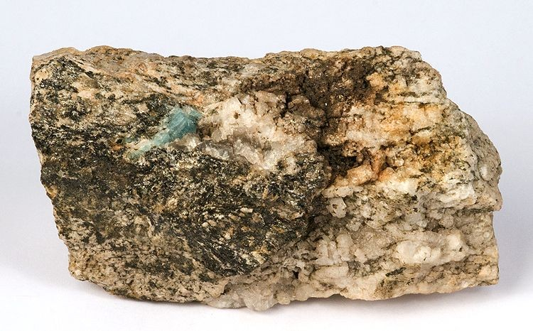 Bazzite Locality: Gjaidtroghöhe Mt., Große Fleiß valley, Goldberg group, Hohe Tauern Mts, Carinthia, Austria (Locality at ) Size: 8.7 x 4.9 x 3.6 cm. Bazzite is the rare scandium analogue of beryl found in few localities worldwide in miarolitic cavities in granites, granite pegmatites and in Alpine veins associated with pegmatitic minerals. A 2.0 cm, deep blue, gemmy and lustrous bazzite crystal is set in a 3.5 cm, quartz-lined vug in granitic gneiss matrix. This is a large and very uncommon crystal for this rare species and hails from mineralized clefts on Gjaidtroghohe Mountain in the Hohe Tauren Mountains of Austria. Ex. Mullane Collection.